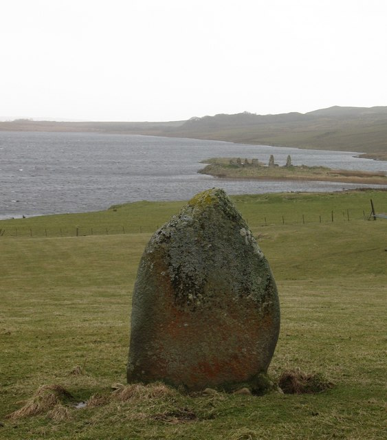 Standing stone, Finlaggan This stone overlooks Loch Finlaggan and stands about 2m high. A geophysical survey of the site has suggested that this stone is the only visible remnant of a much larger and more complex stone monument or ceremonial site.